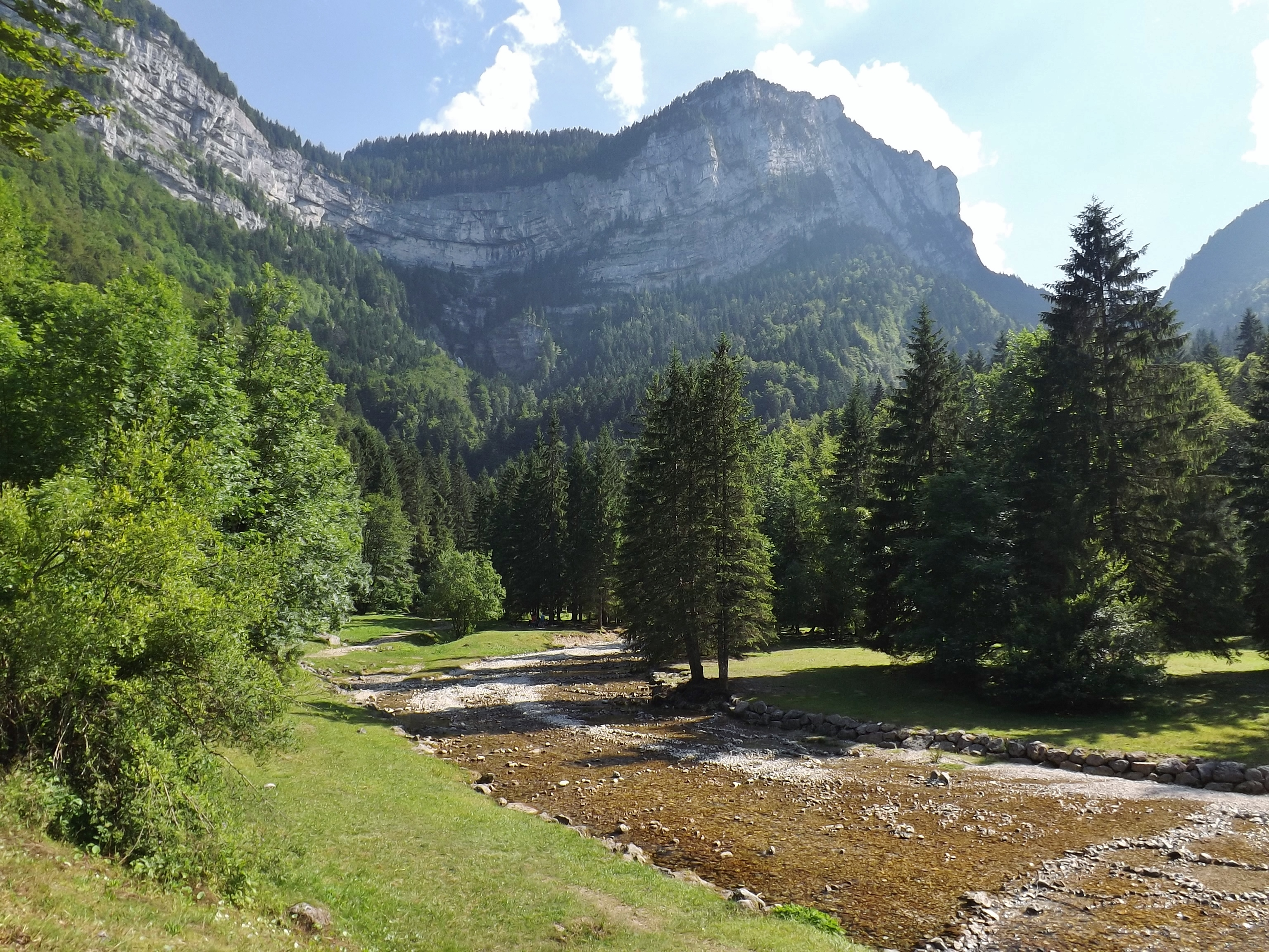 Sight the Saint-Même cirque, crossed by the river Guiers Vif in the Chartreuse mountains (Savoie and Isère), France.